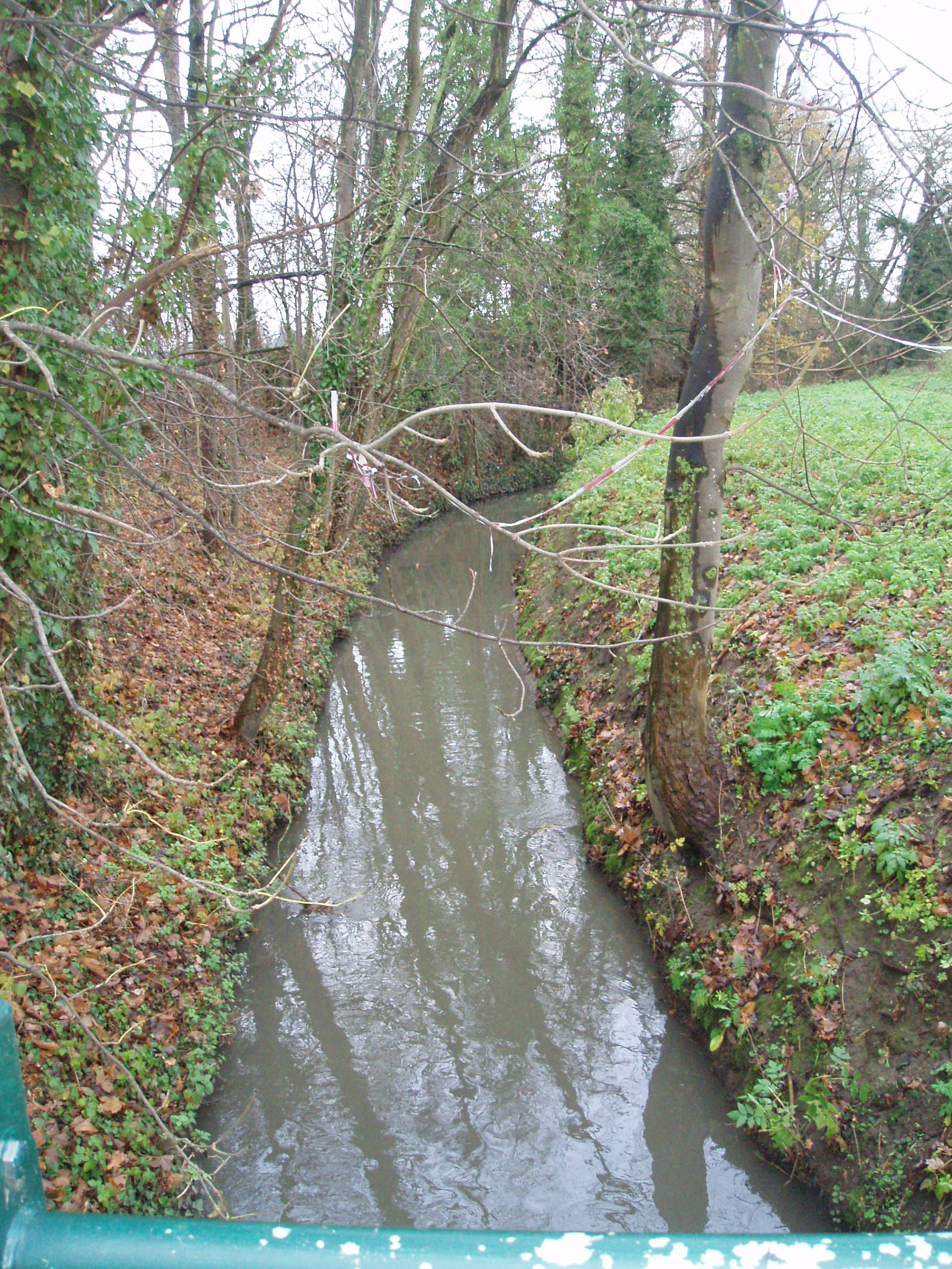 Sint-Truiden Cicindria stream